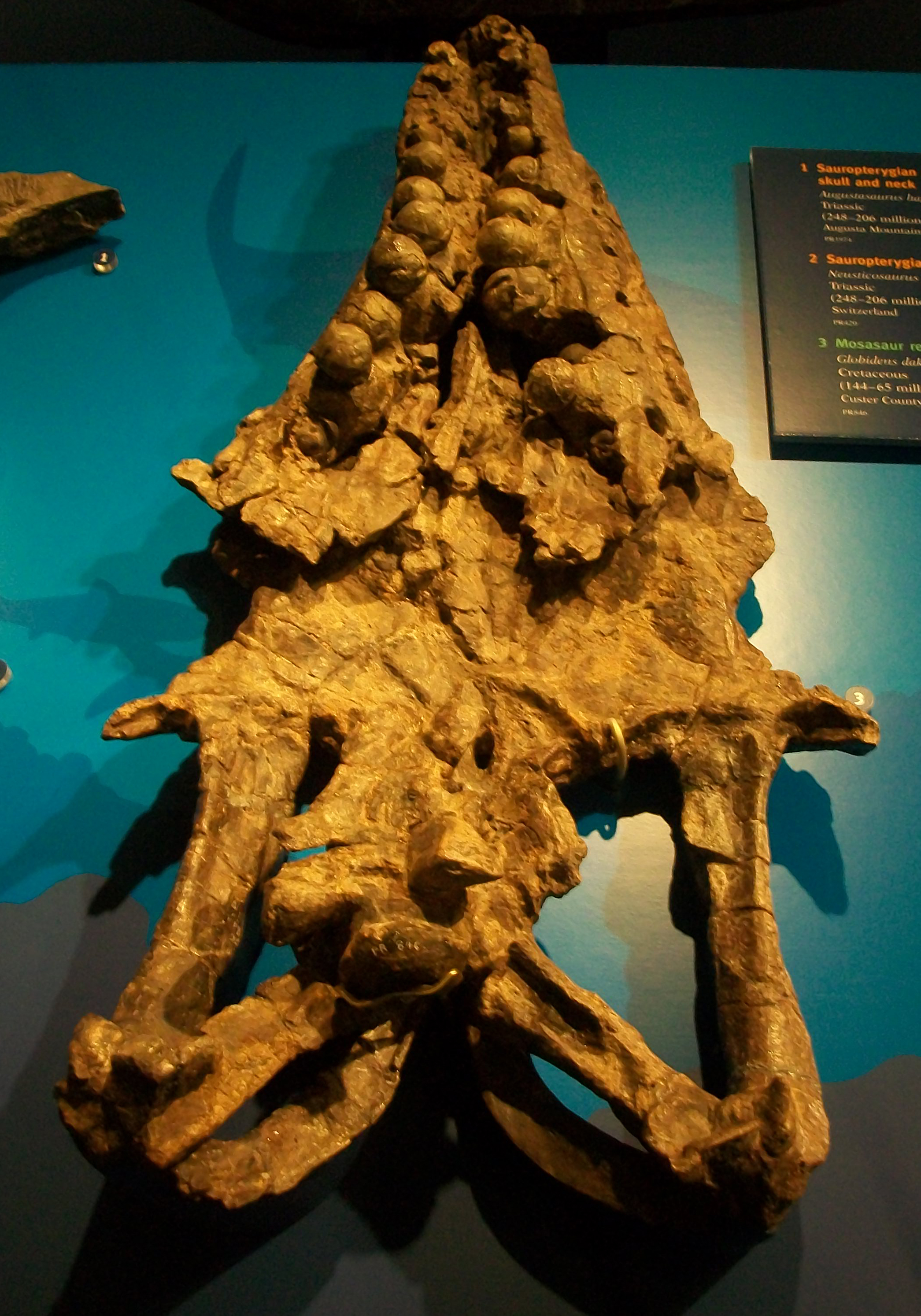 Skull of Globidens dakotensis in the Field Museum of Natural History.